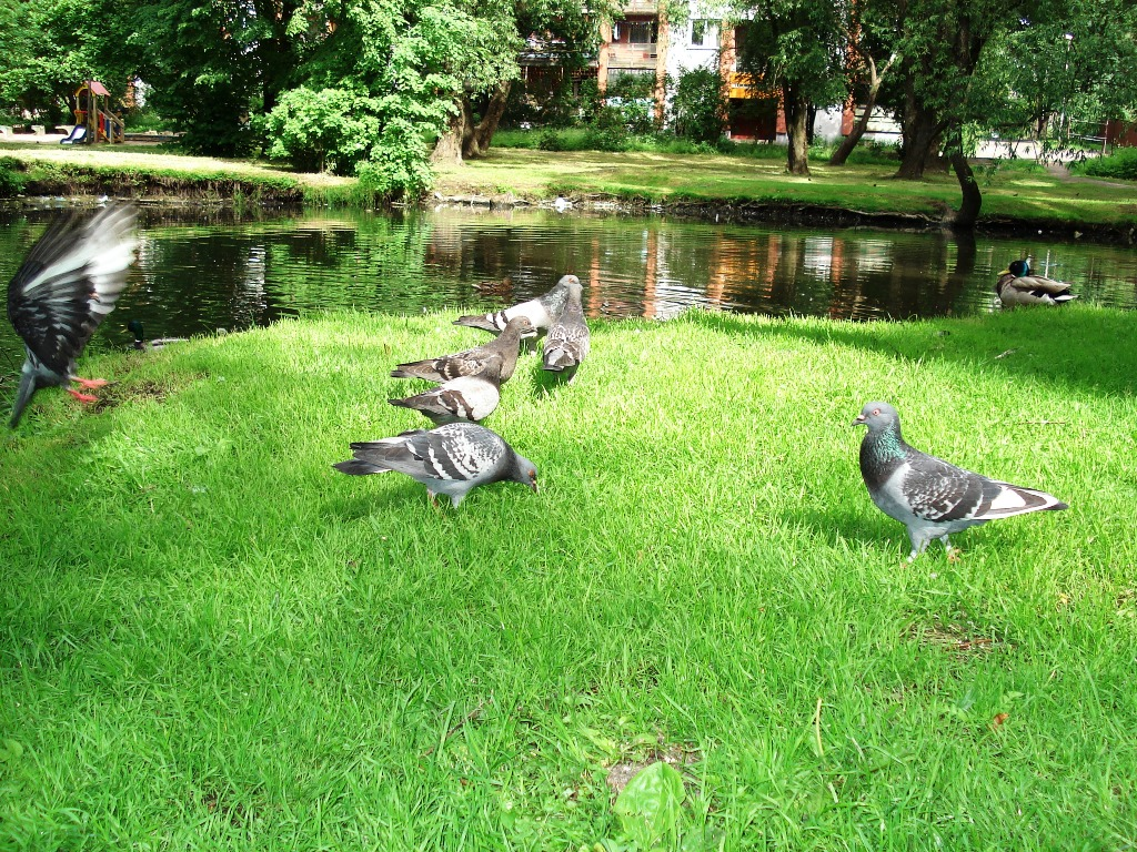 Feral Rock Pigeon